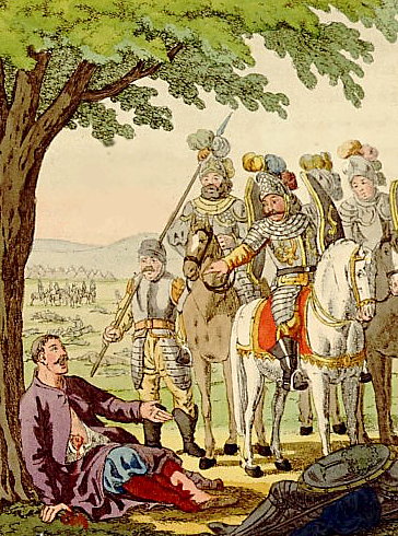 Władysław łokietek meets Florian Szary after the battle of Płowce 1331